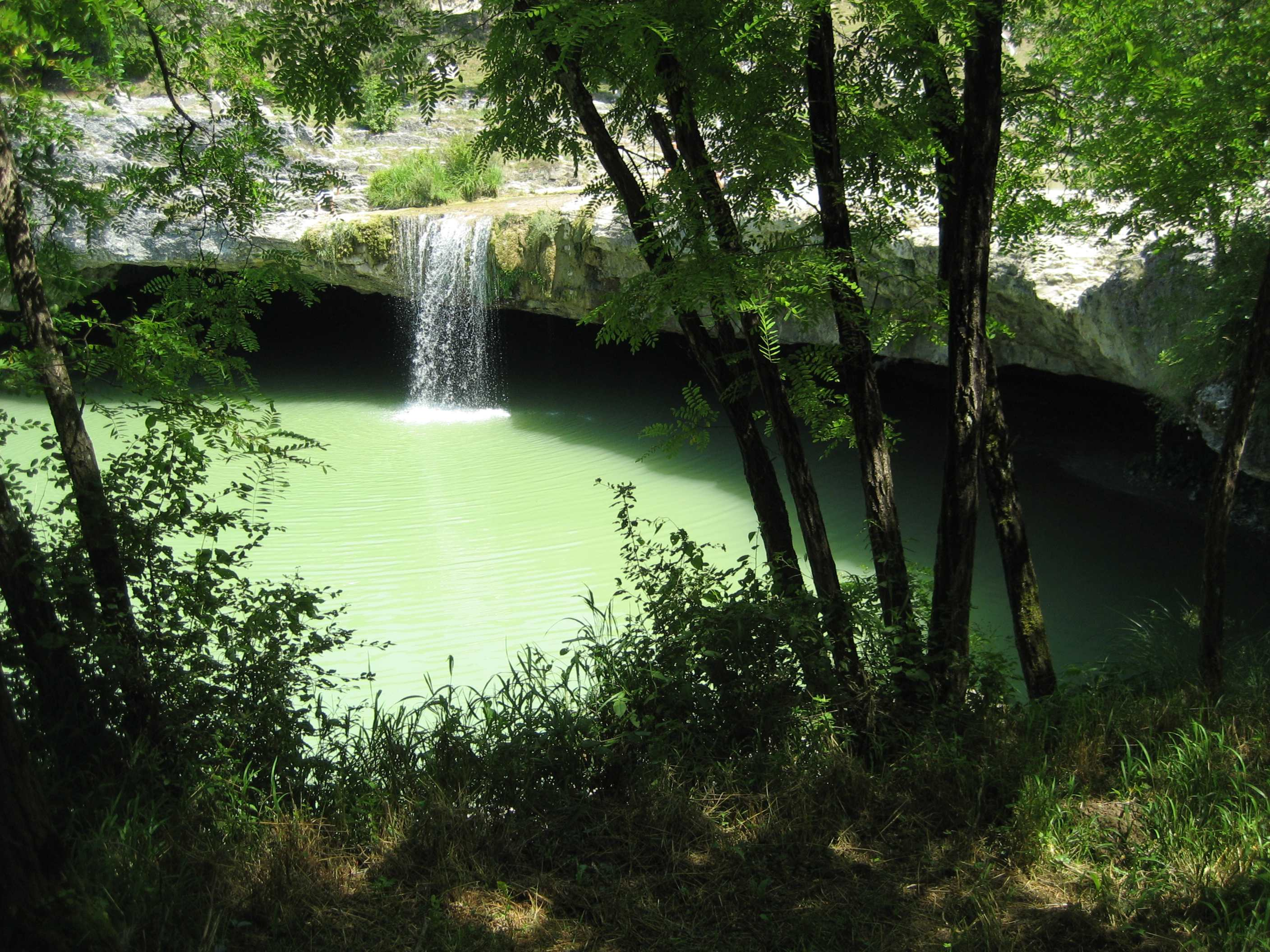 Zearecki Krov, near Pazin, Croatia.